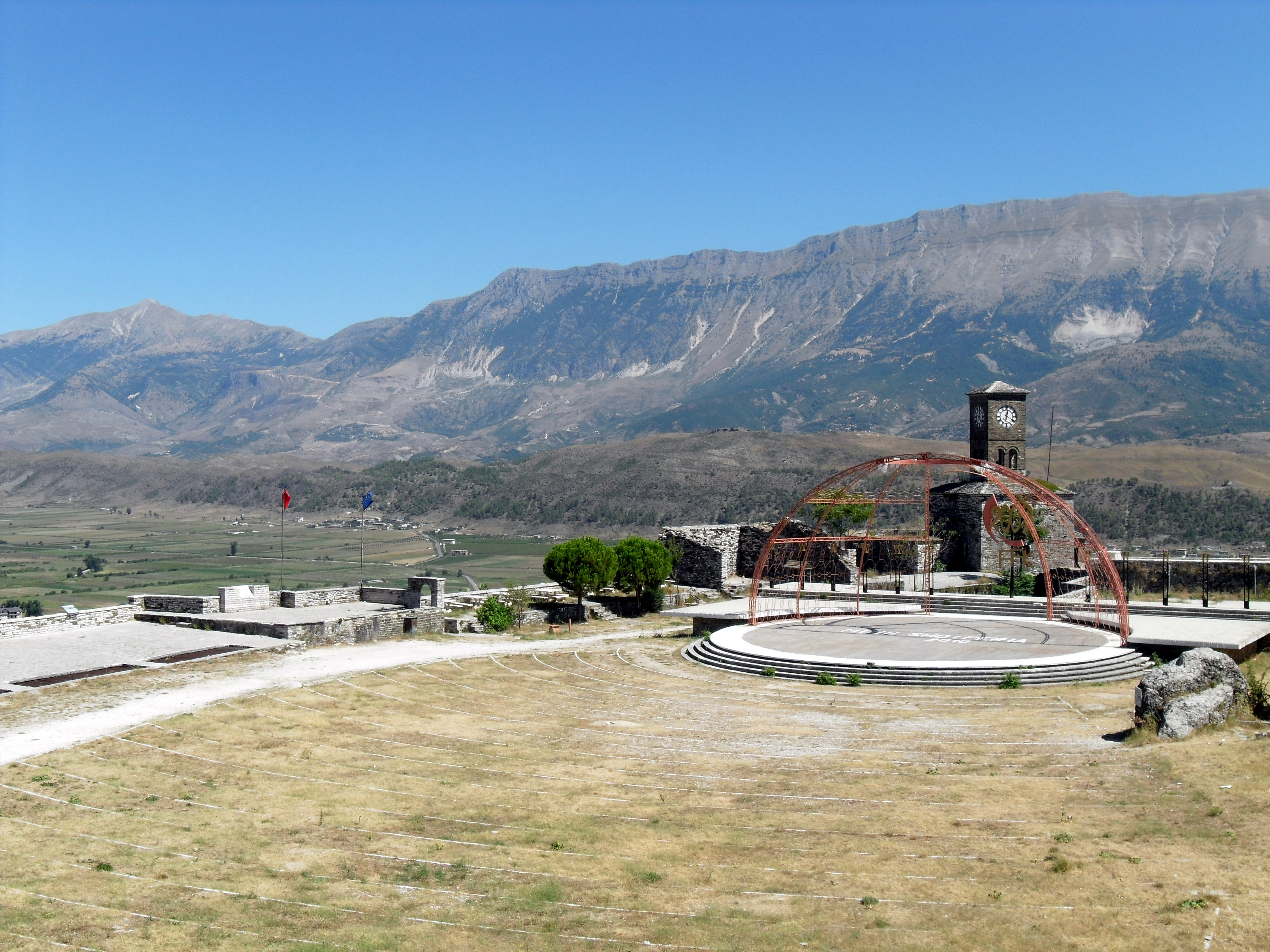 Castle in Gjirokastër